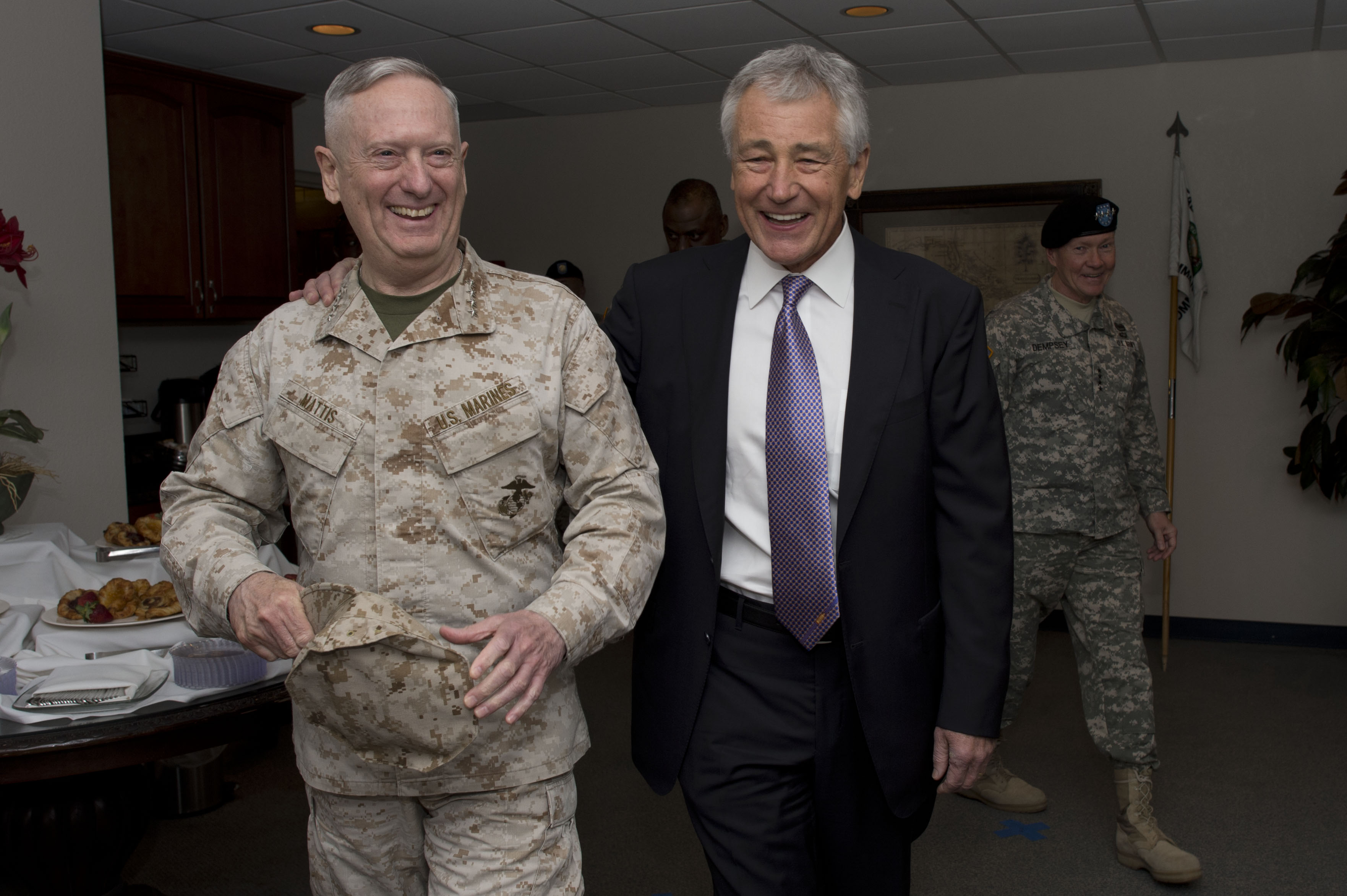 Secretary of Defense, Chuck Hagel, laughs with General James Mattis after the U.S. Central Command change of command at McDill Air Force Base, in Tampa, Florida March 22, 2013. Hagel spoke at the ceremony in which Mattis relinquished command to General Lloyd Austin. (DoD photo by Erin A. Kirk-Cuomo)(Released)